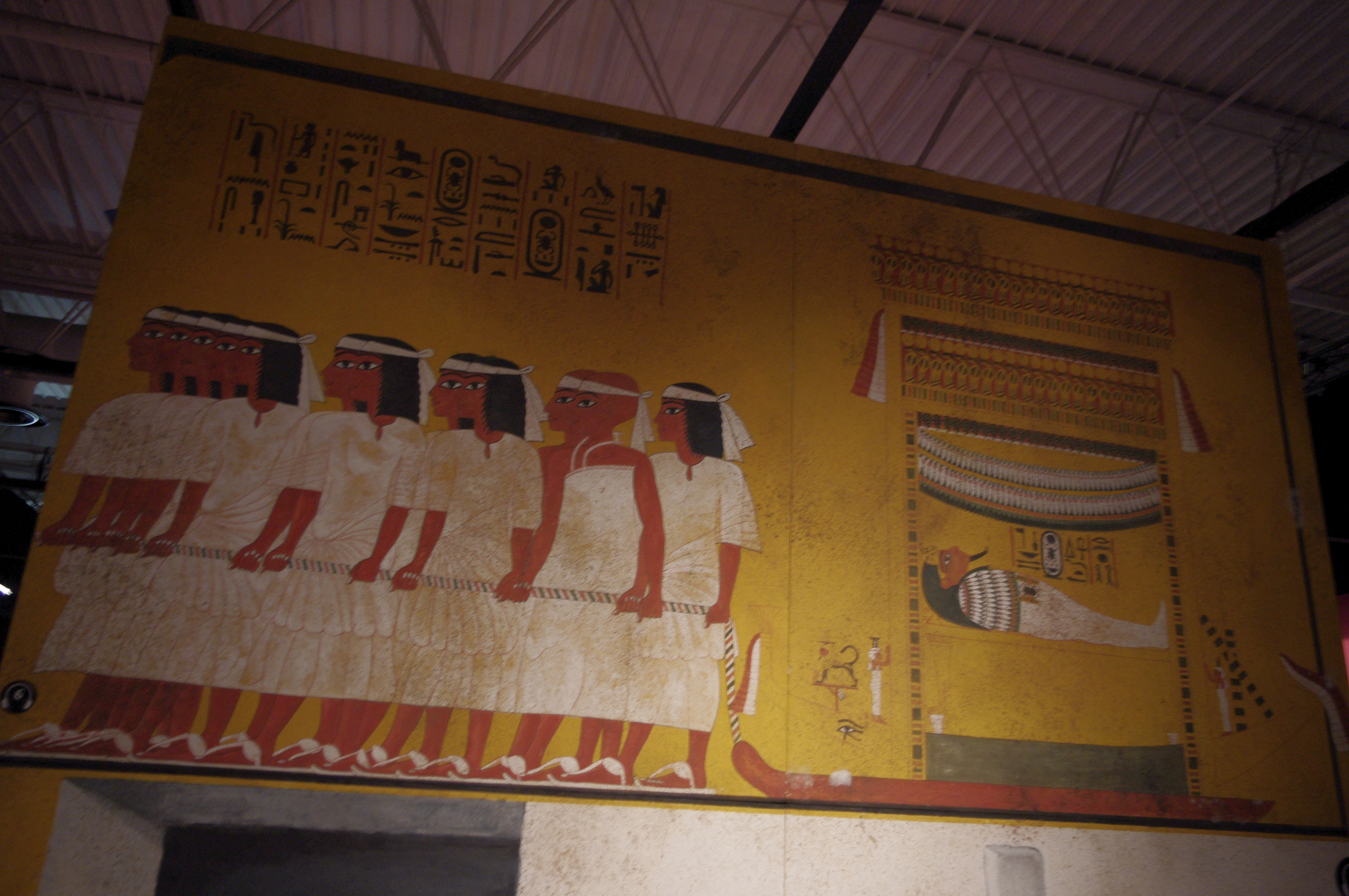 Treasure of Tutankhamun, exposition in Paris 2012.